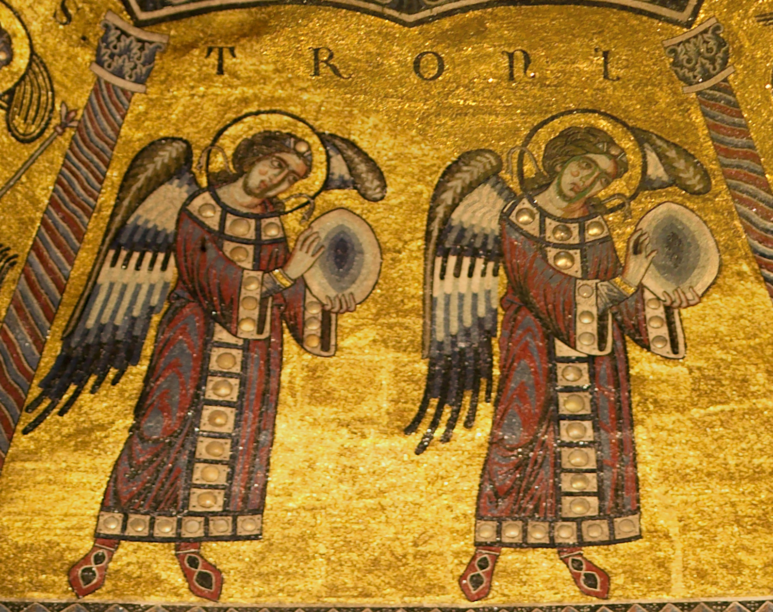 The mosaic ceiling of the Baptistery San Giovanni in Florece in total view (Stitched from 20 images, exif from one image)